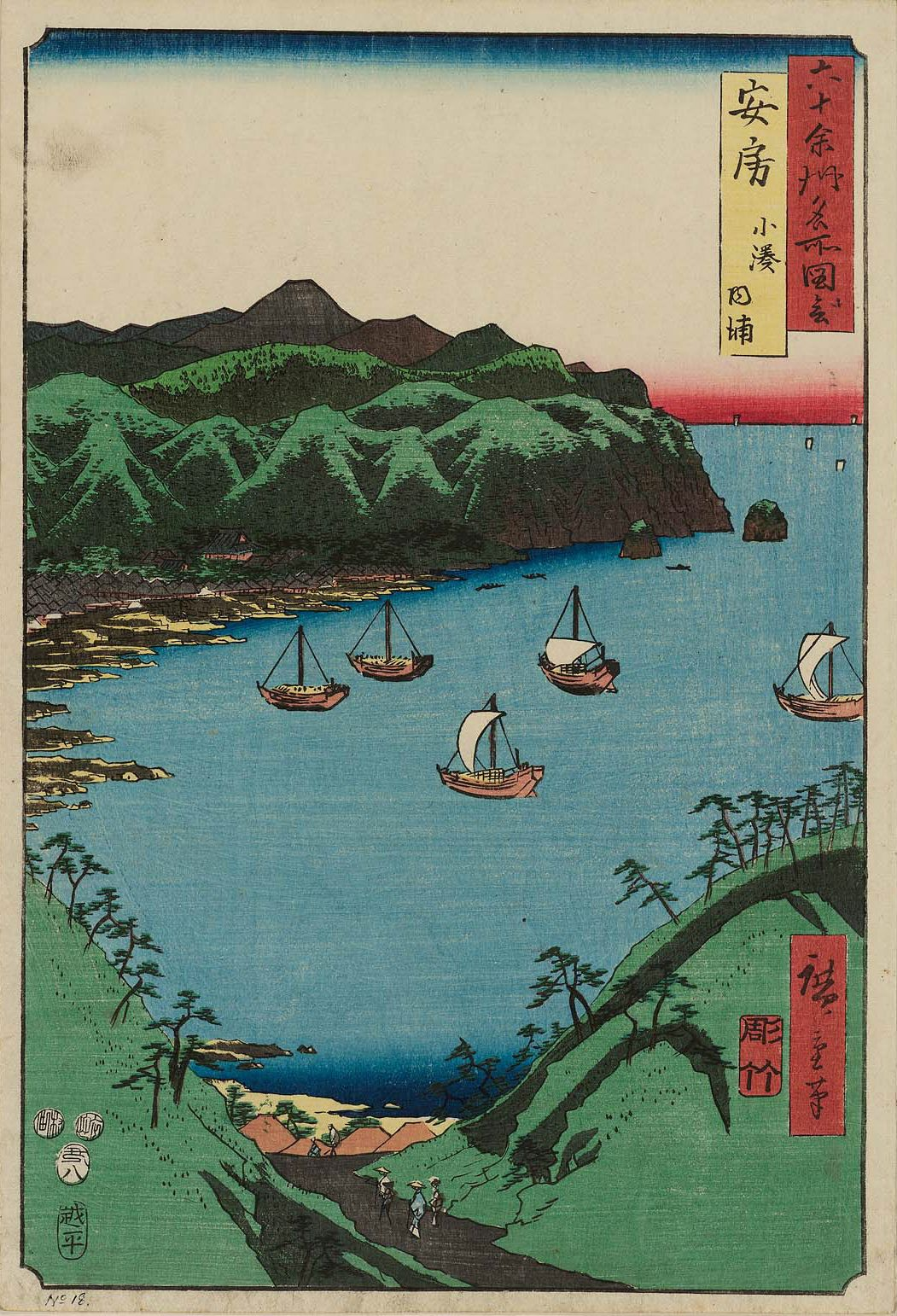 Part of the series Famous Places in the Sixty-odd Provinces, No. 18 (Tōkaidō group)